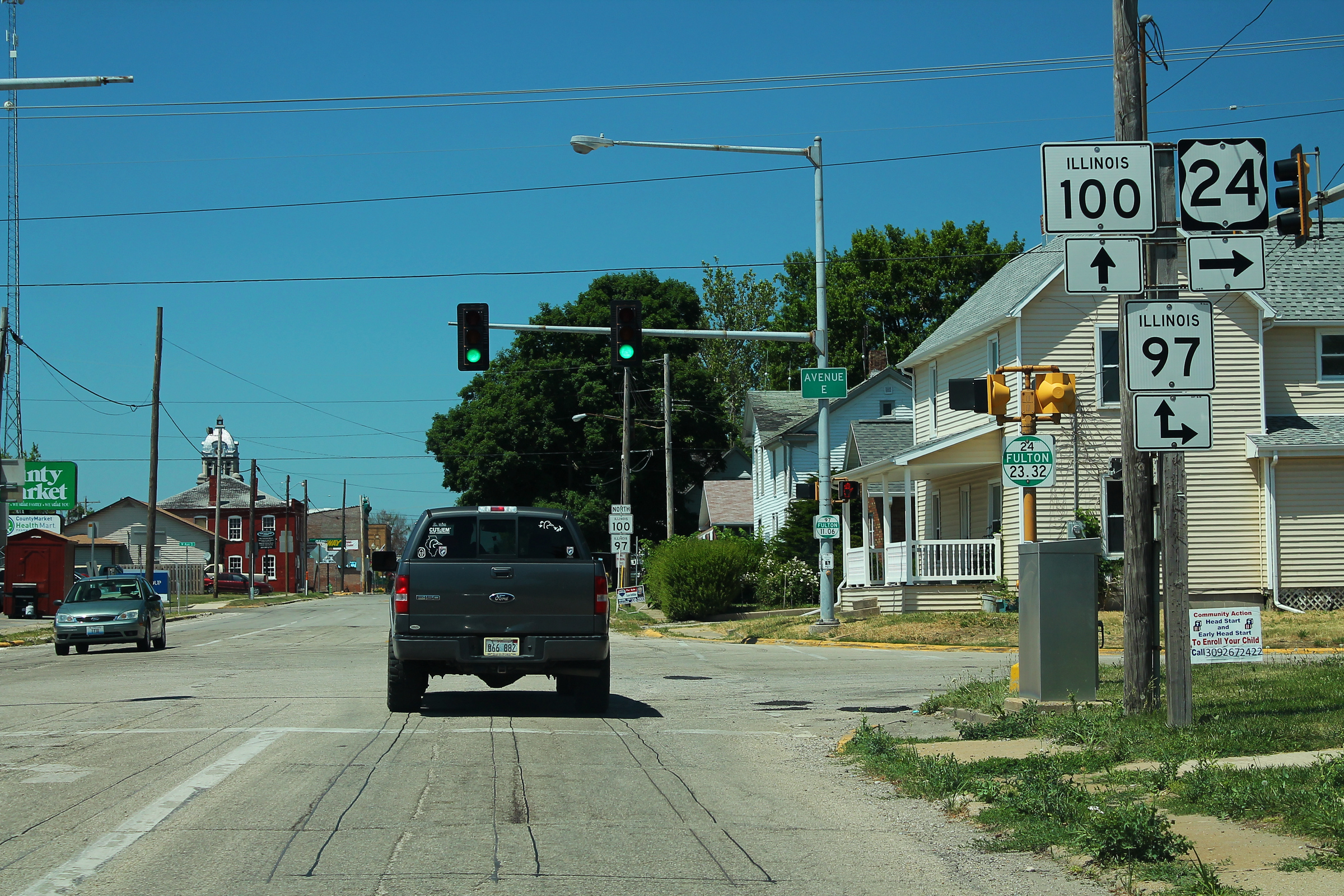 Junction of U.S. Route 24, Illinois Route 97, and Illinois Route 100 in Lewistown, Illinois.